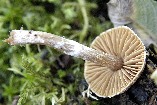 Cortinarius hemitrichus from Commanster, Belgium. If you think this is a different taxon, please contact James Lindsey.